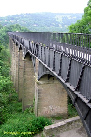 Pontcysyllte Aqueduct.